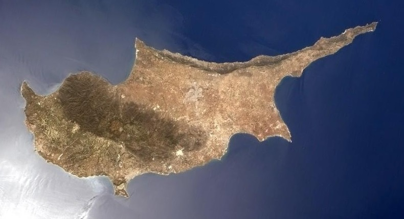 Cyprus, photographed by Chris Hadfield from the International Space Station